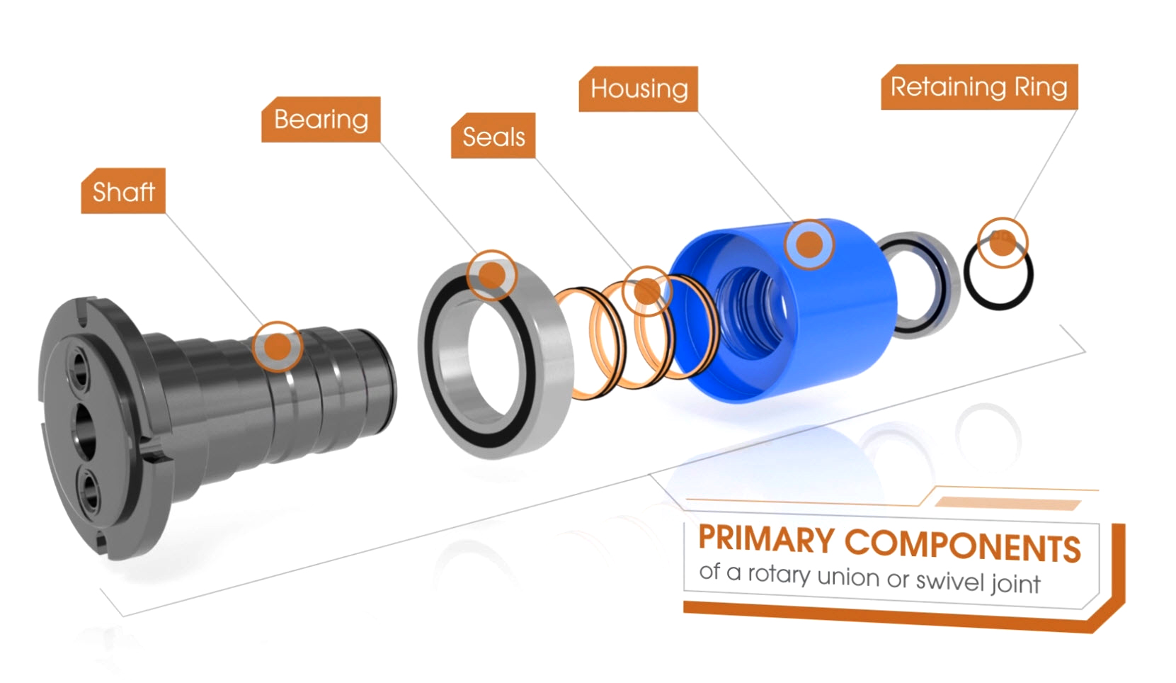 This image shows the components to make a rotary union.